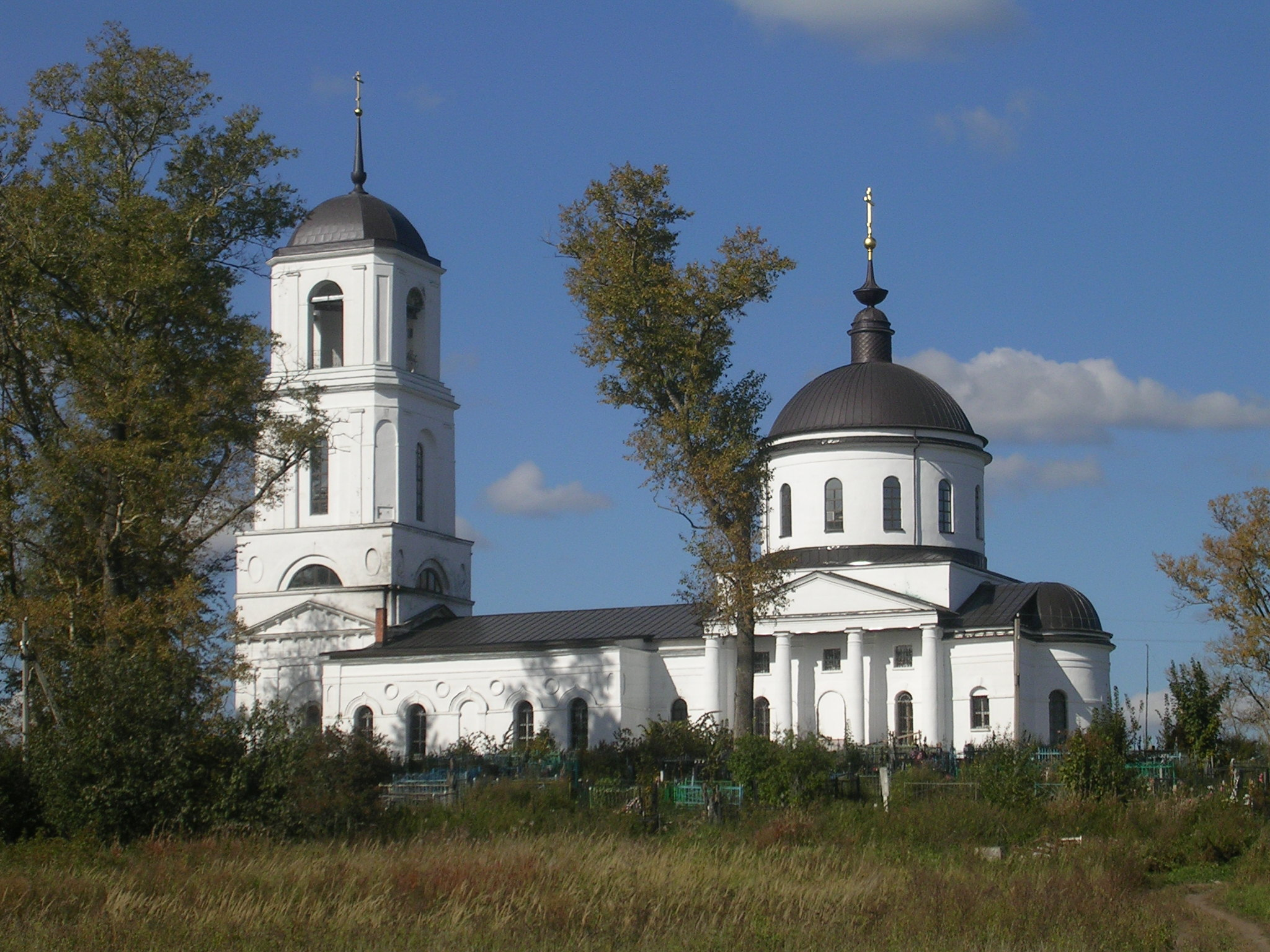 Sergius of Radonezh temple in Novosergievo, Noginsk district of Moscow region, Russia. September 2010 photo.